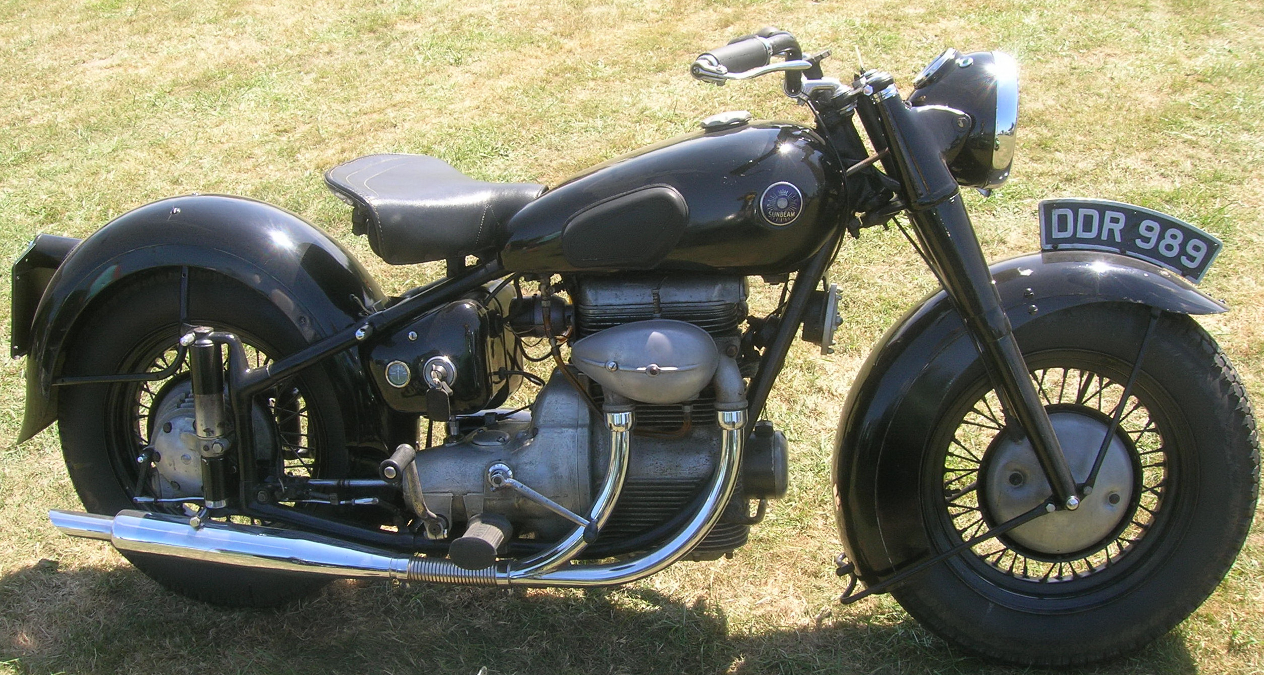 Sunbeam S7 motorcycle(DVLA) reg 1 May 1947, 500 cc